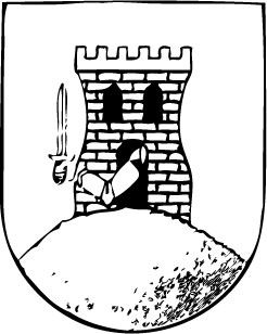 rouco shield